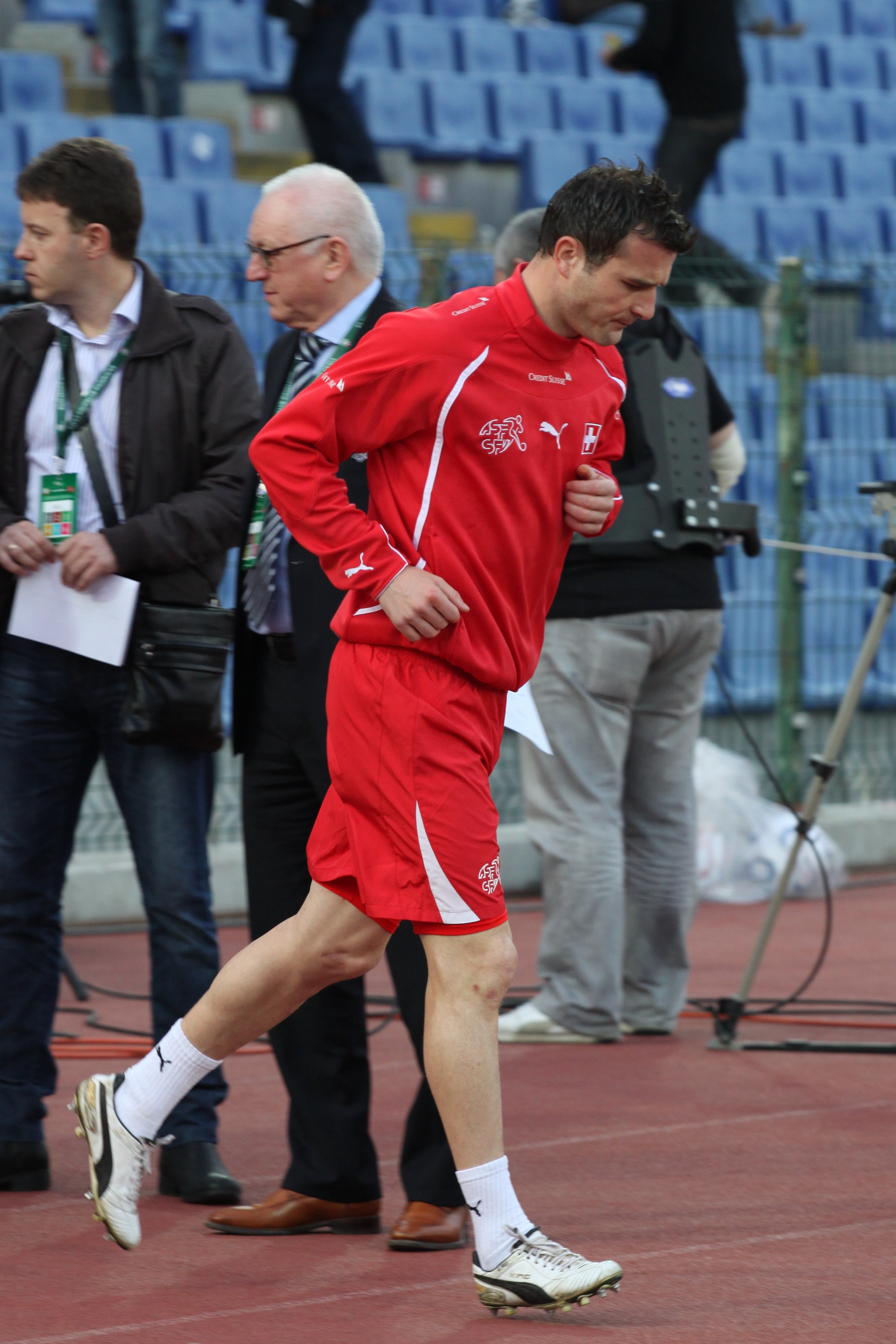 Alexander Frei (born 15 July 1979 in Basel) is a Swiss footballer who currently plays for Swiss Axpo Super League club FC Basel, and was the captain of the Swiss national team. He is also all-time leading scorer of the Swiss with 42 goals.